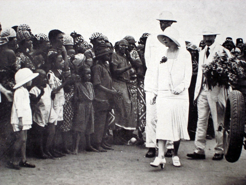 King Albert I of the Belgians and Queen Elizabeth inspect the military camp of Leopoldville during their visit to the Belgian Congo, 1928